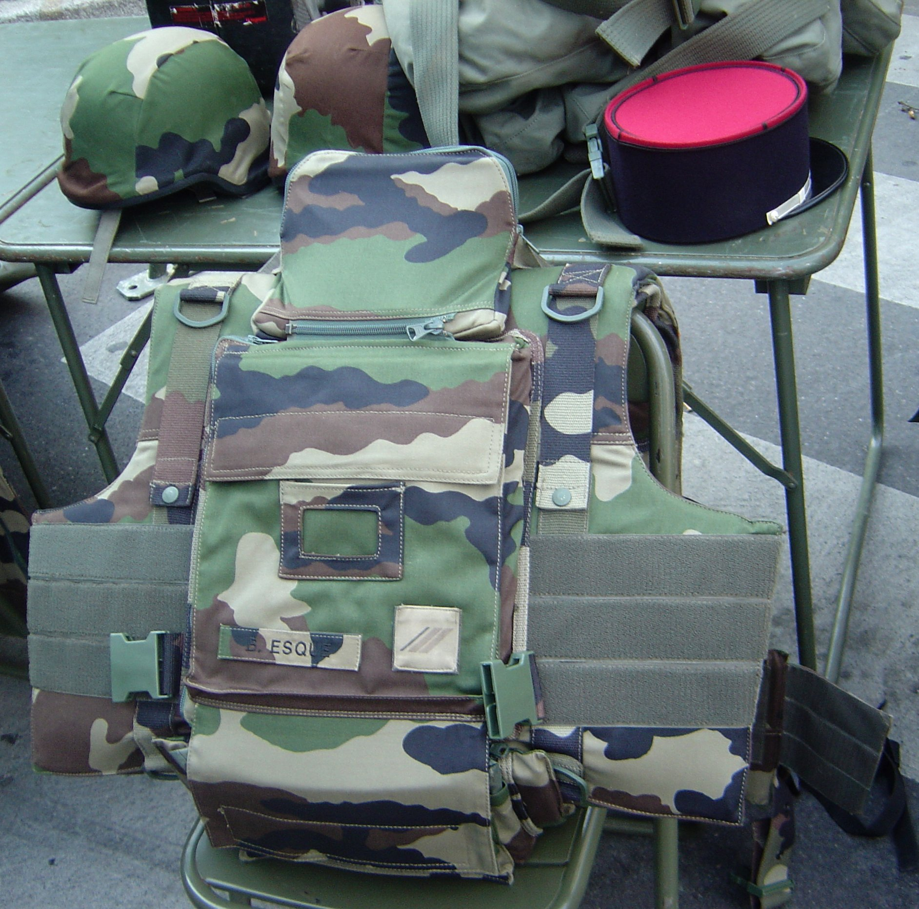 infantry equipment of the French Army: helmet, schrapnel-proof vest, kepi cap